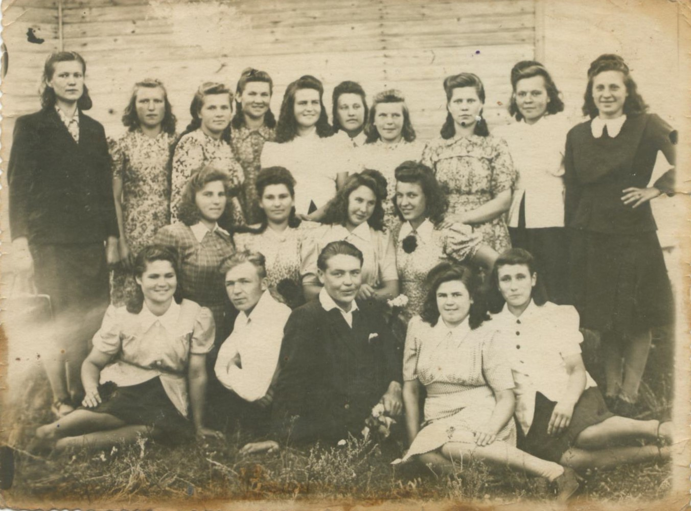 adults